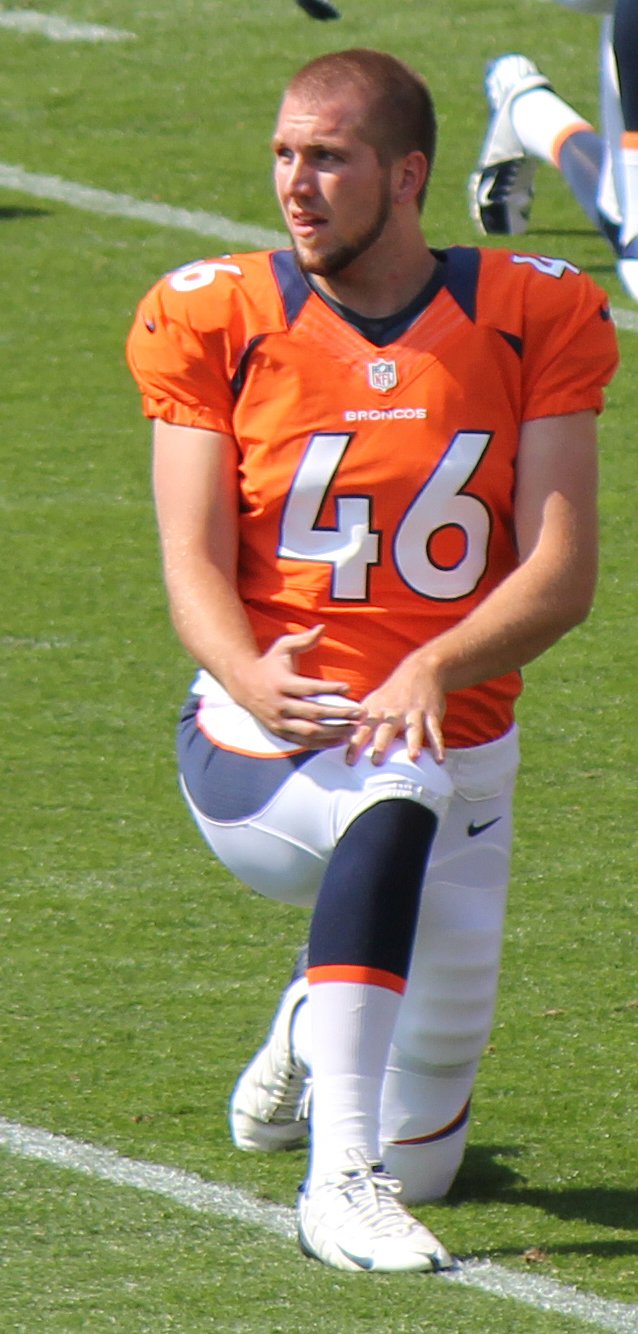 Aaron Brewer,a player on the National Football League.